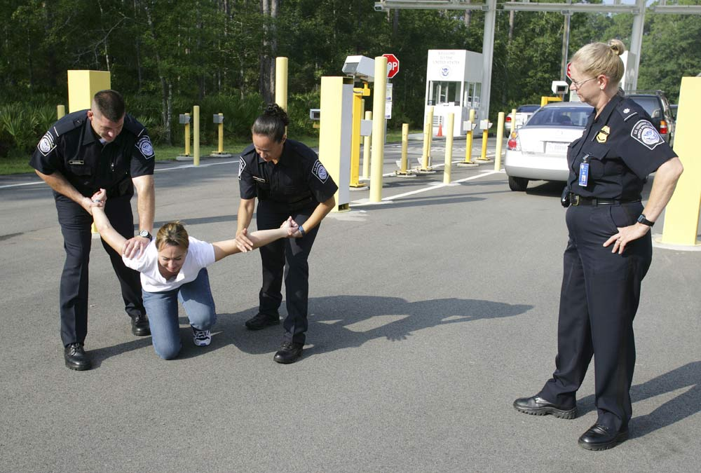 CBP Field Operations Academy at the Federal Law Enforcement Training Center in Glynco, Georgia, USA. CBP officers initiate an arrest at the mock port of entry while overseen by a CBP Instructor.